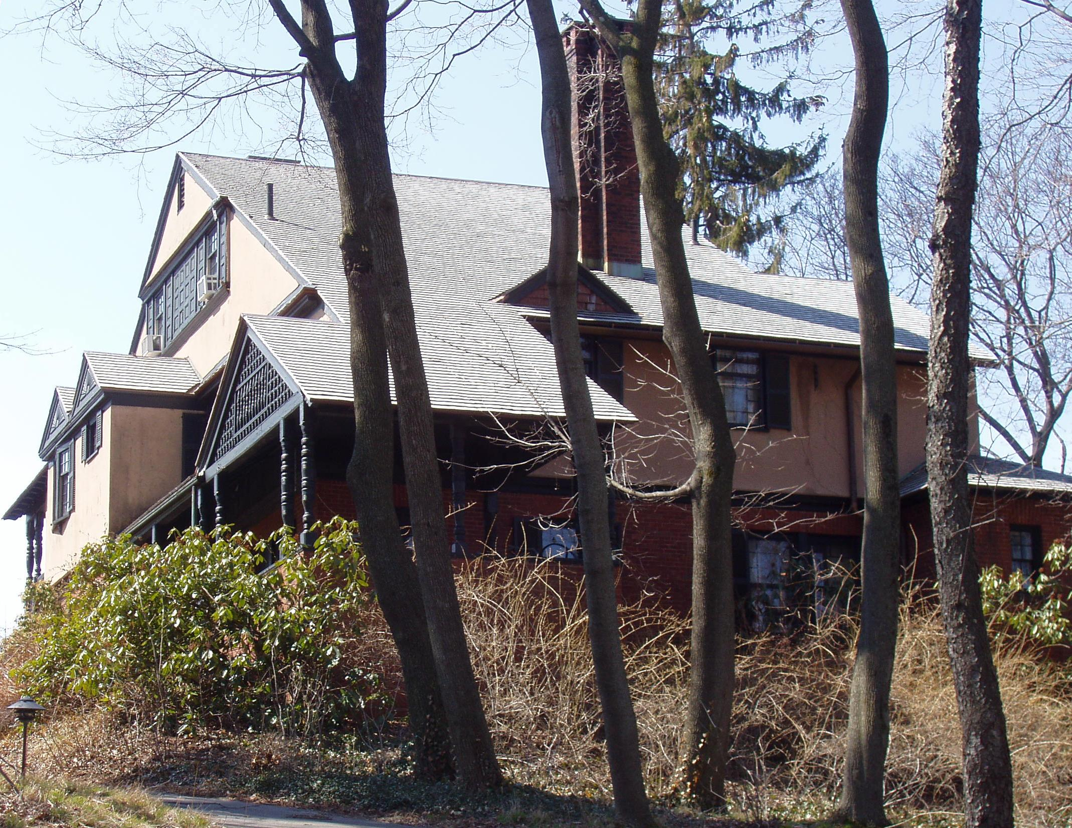 Photograph of Redtop, a National Historic Landmark in Belmont, Massachusetts, USA.